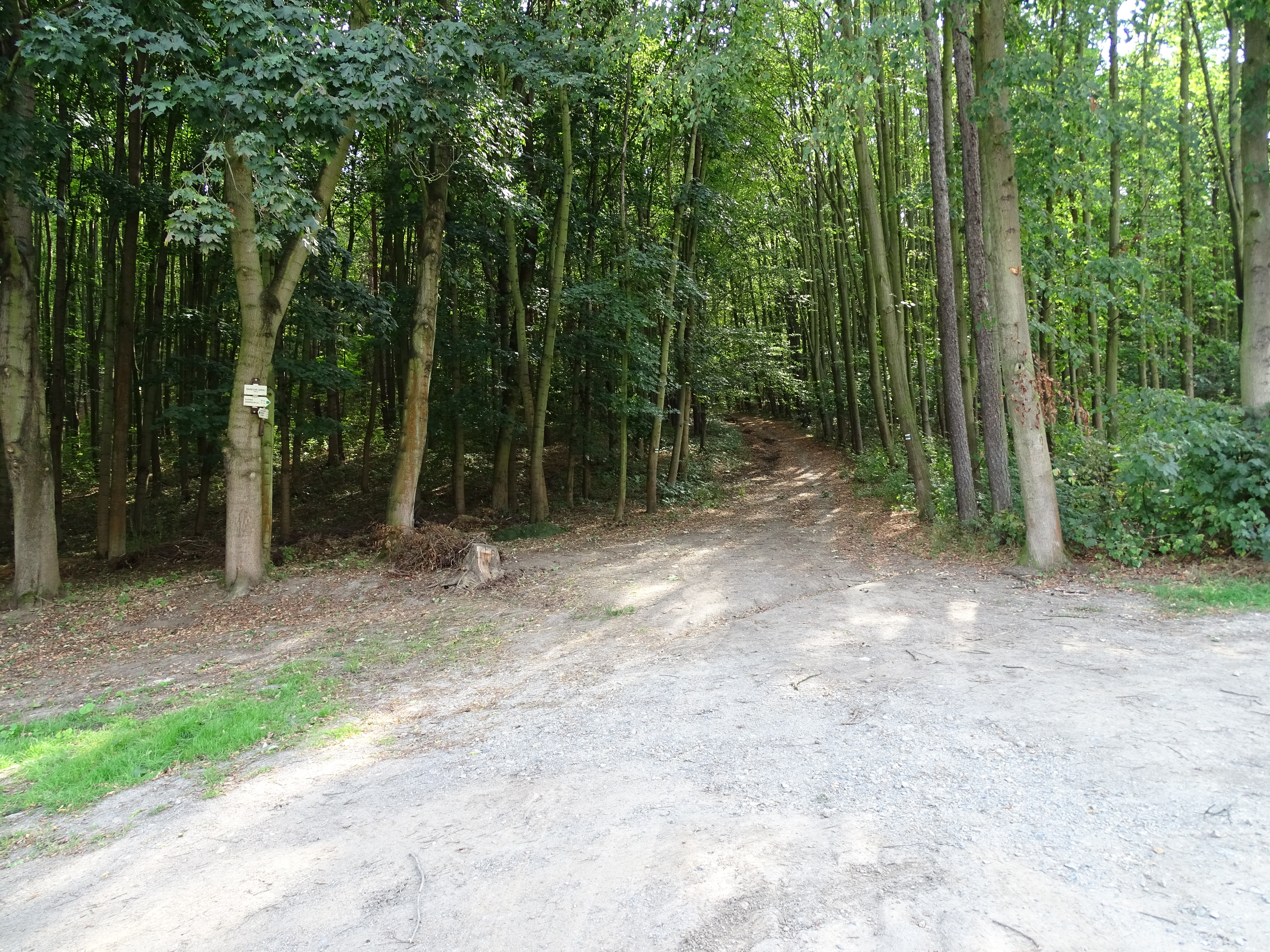 Prague-Dejvice, Czech Republic. V Šáreckém údolí, a forest way to Zlatnice.